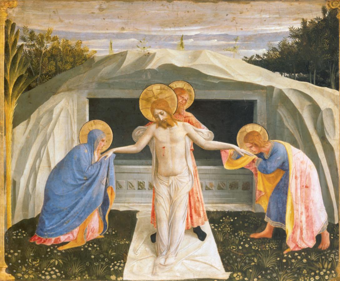 Entombment of Christlabel QS:Len,"Entombment of Christ"label QS:Lru,"Погребение Христа"